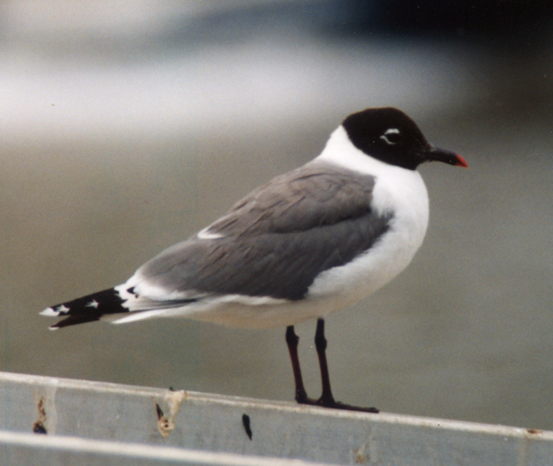 Franklin's Gull (Larus pipixcan) Brisbane, SE Queensland, Australia